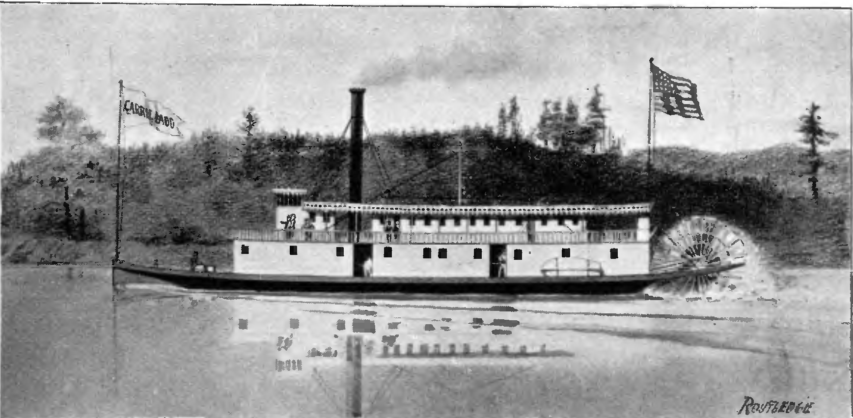 painting of sternwheeler Carrie Ladd